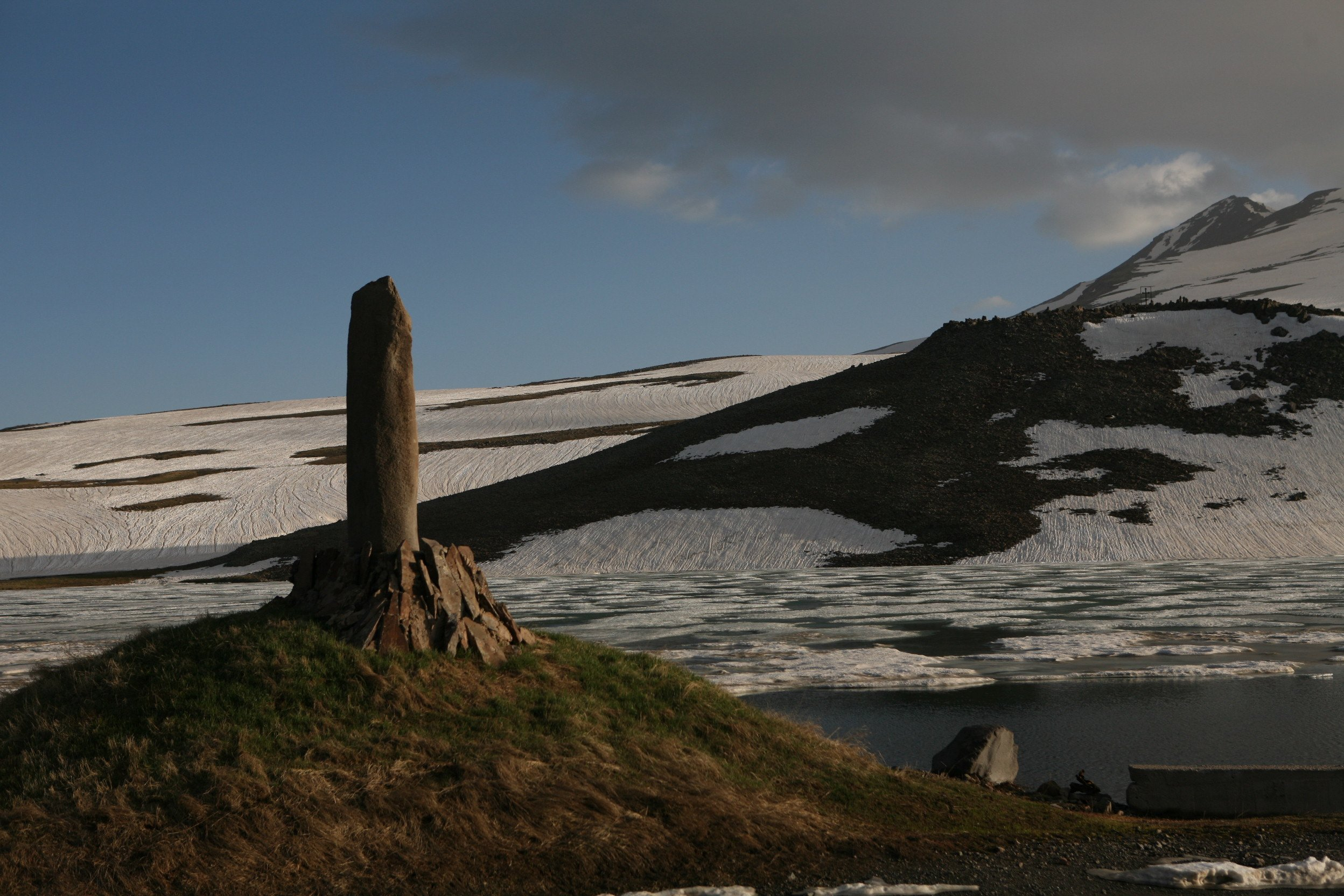 Vishap against the Background of Snow-Capped Mt Aragats